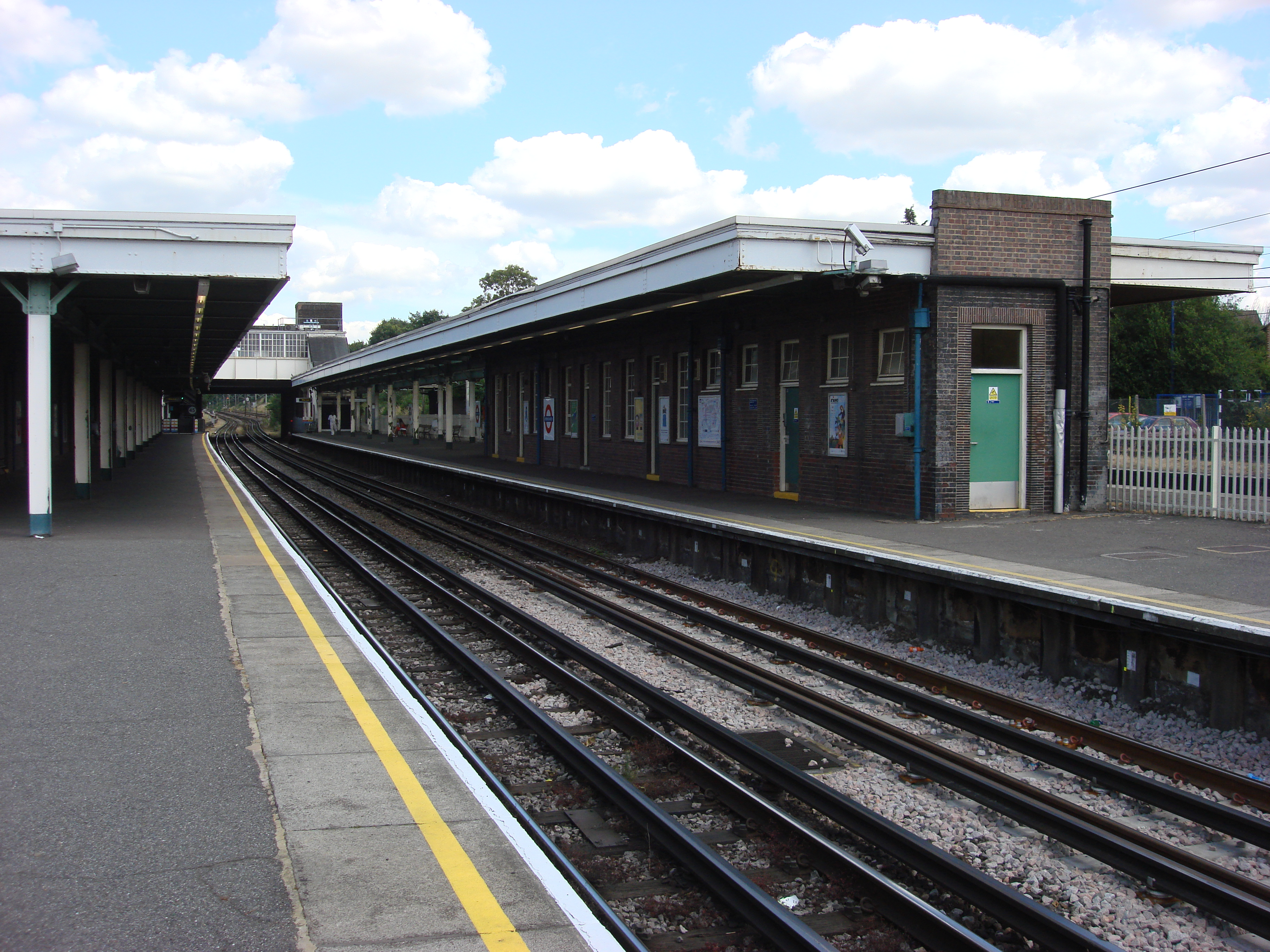 Hornchurch tube station, eastbound platform